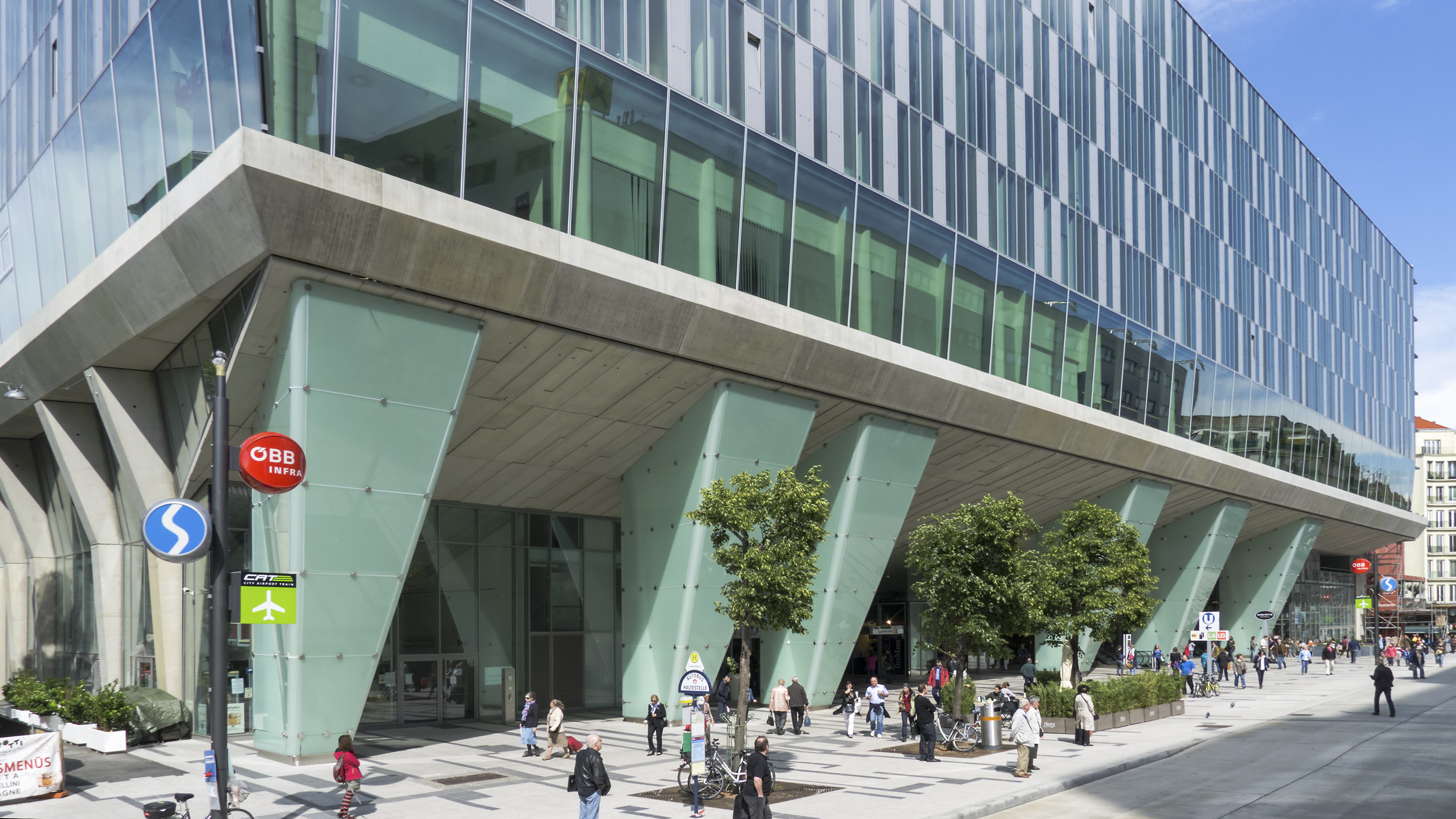 Railway station and shopping center Bahnhof Wien Mitte in Vienna 3